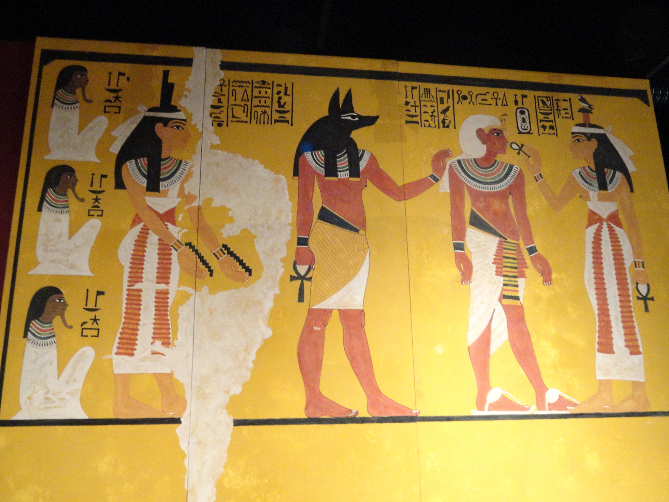 Replicate of the south wall of the burial chamber at the tomb of Tutankhamun, Valley of the Kings, Thebes